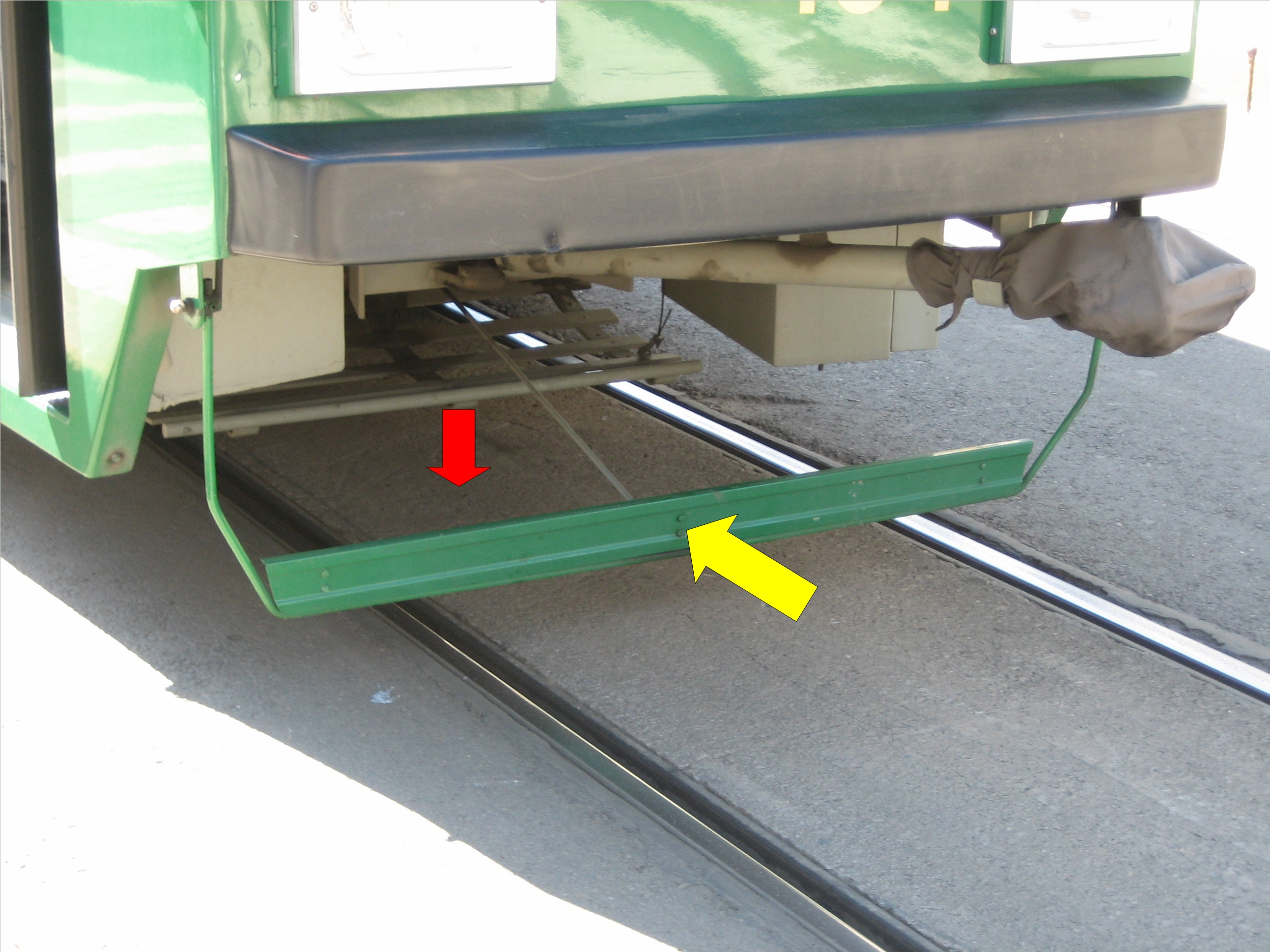 A catcher system under a tram